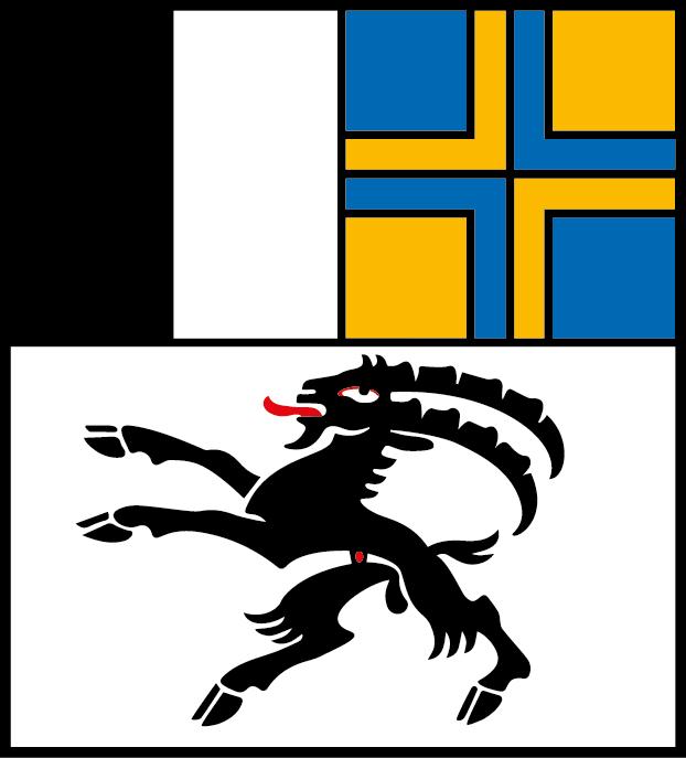 Coat of arms of the canton of Grisons, Switzerland (since 1933)